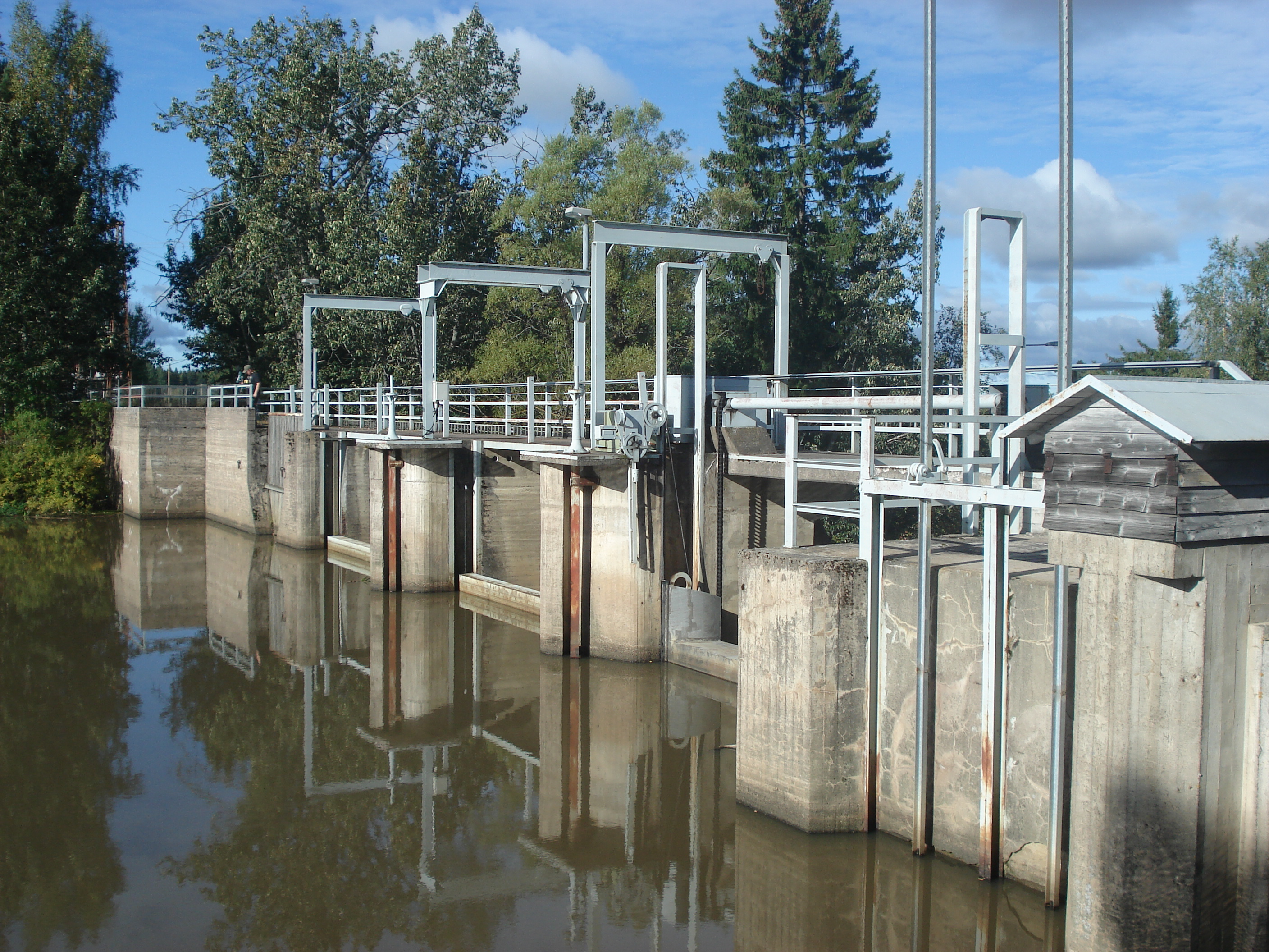 Juvankoski Rapid in Paimionjoki River at Tarvasjoki, Finland.